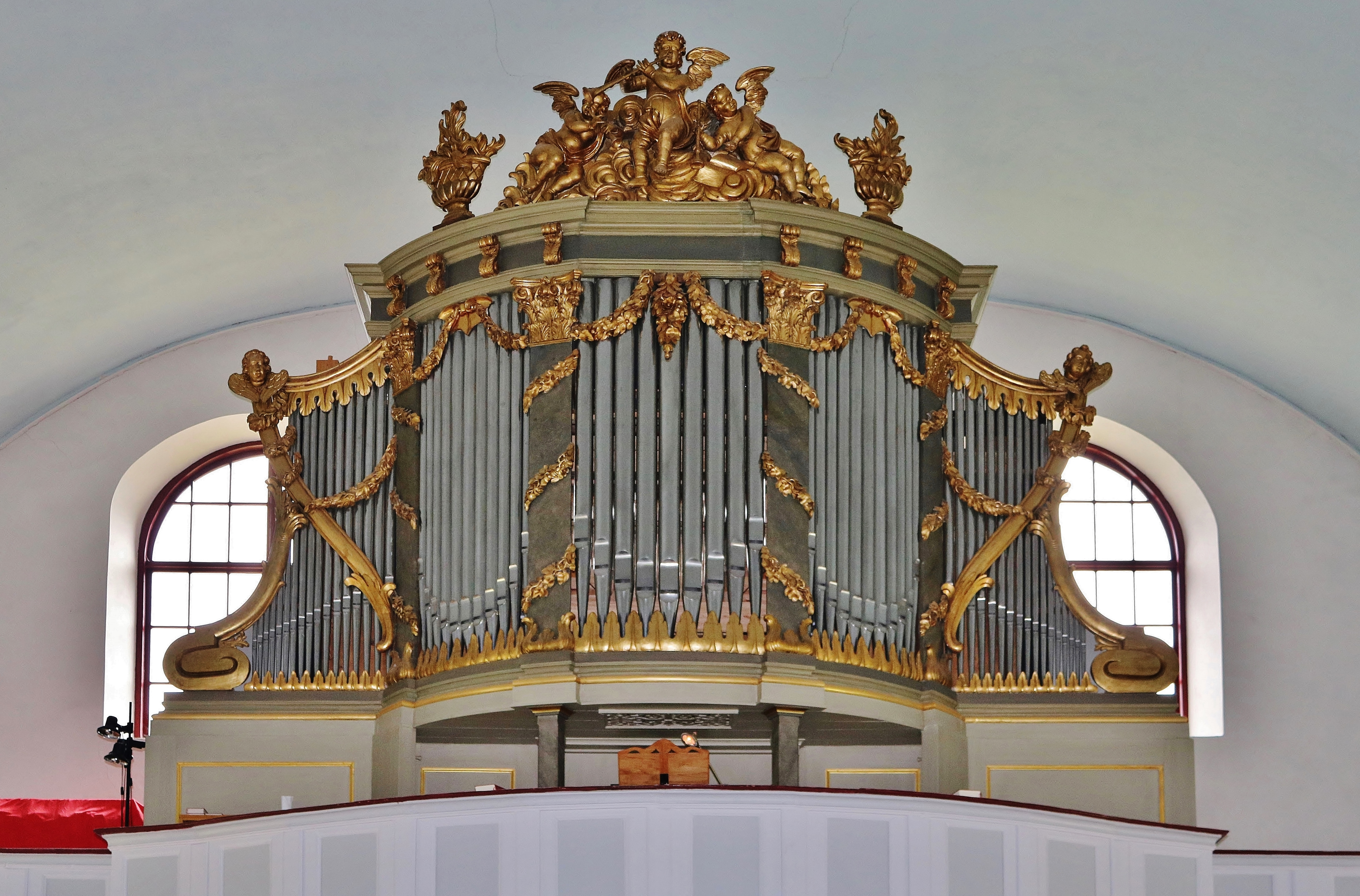 Vissefjärda Church. The organ